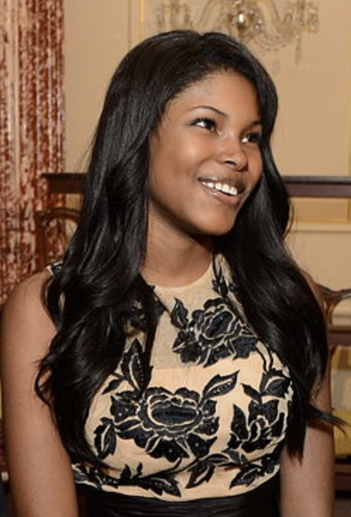 American musician Diamond White in June 2013